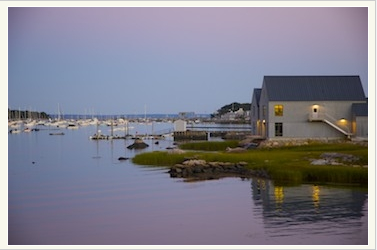 The Marine Science Center at Tabor Academy in Marion, Mass.